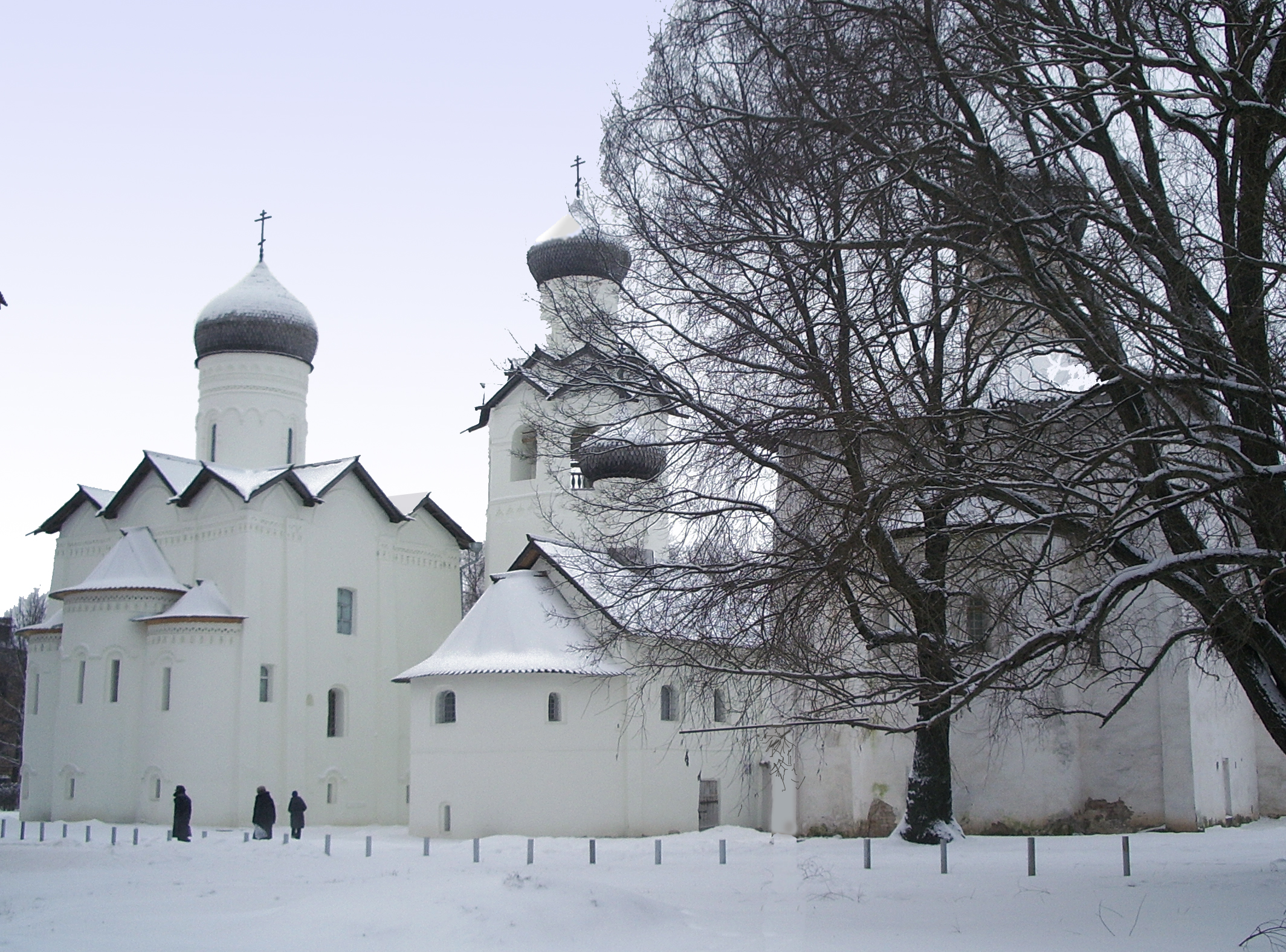 Spaso-Preobrajensky monastery. Staraya Russa history museum